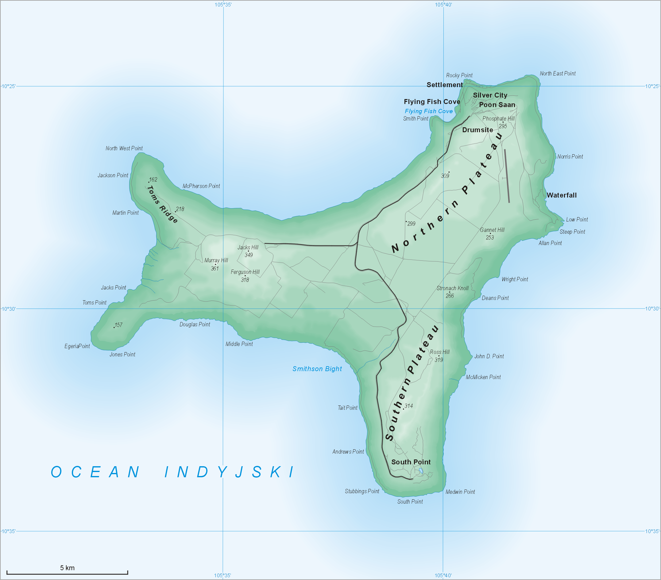 Map of Christmas Island